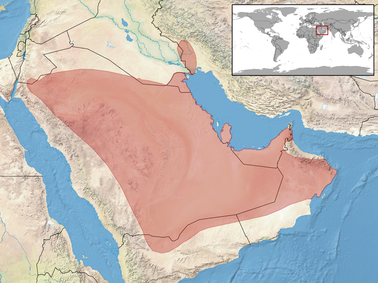 geographic distribution of Phrynocephalus arabicus (Native: Iran, Islamic Republic of; Jordan; Oman; Saudi Arabia; United Arab Emirates)